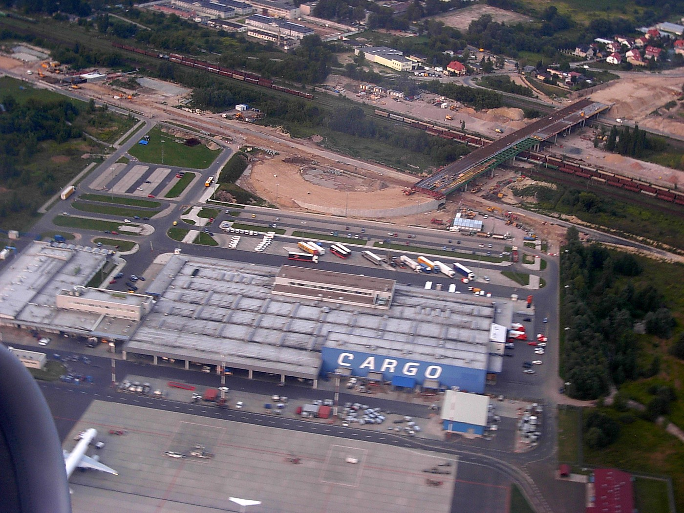 Okęcie Airport in Warsaw (WAW), aerial view of cargo terminal